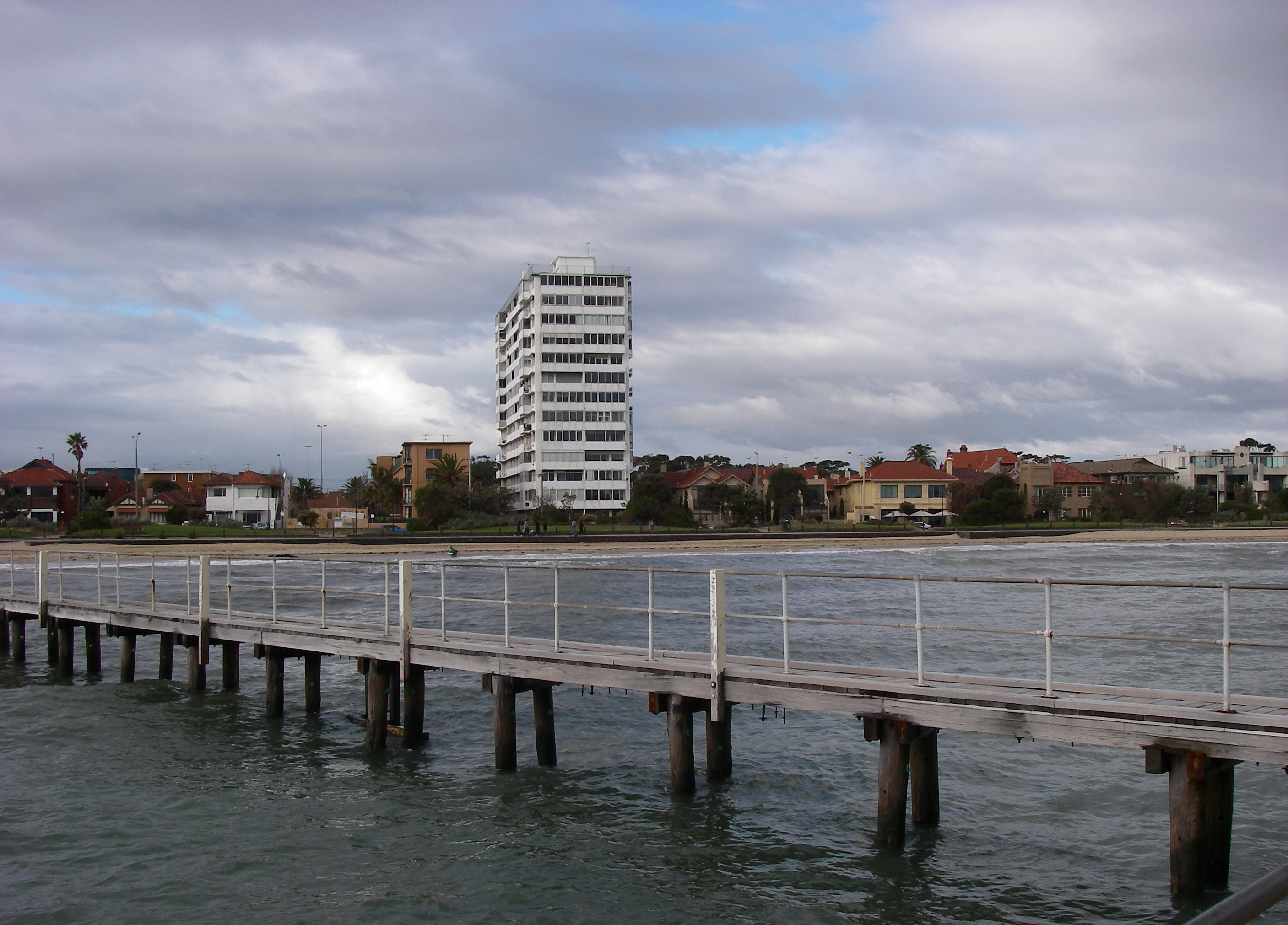 View of St Kilda Beach and Edgewater Towers from Brooks Jetty.